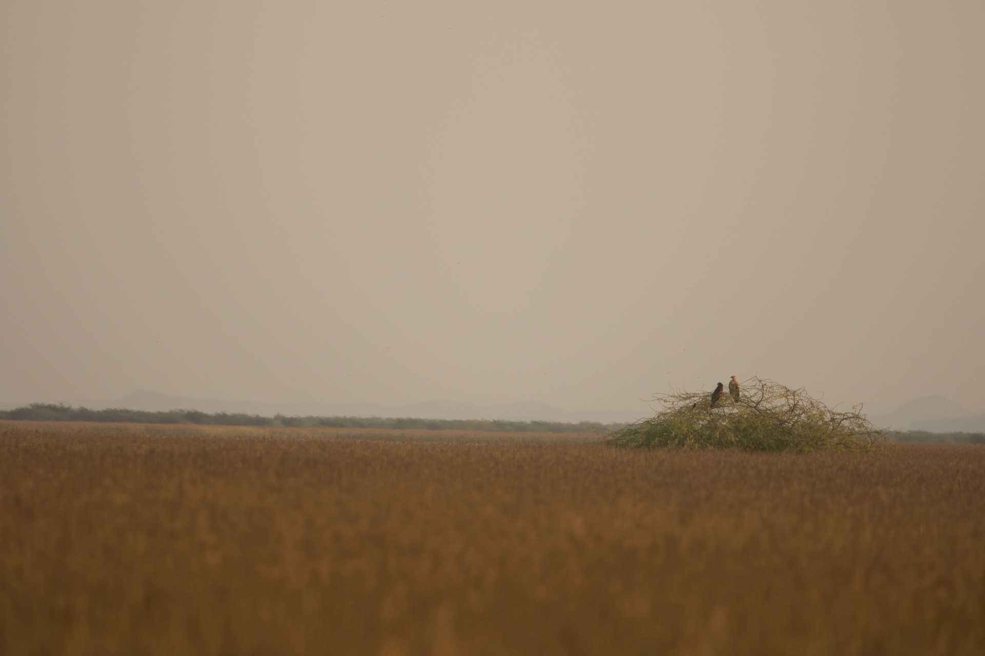 Taken at Greater Rann of Kutch